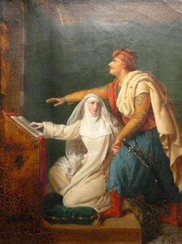 Mathilde makes Malek-Adhel promise to become a Christian